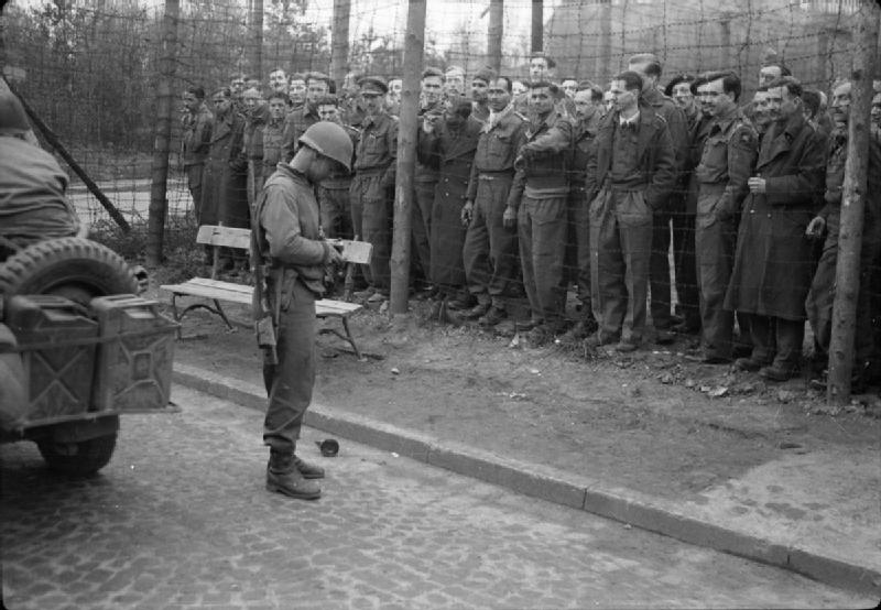 The British Army in North-west Europe 1944-45 An American soldier takes a photograph of British POWs at Oflag 79 in Brunswick, 12 April 1945.